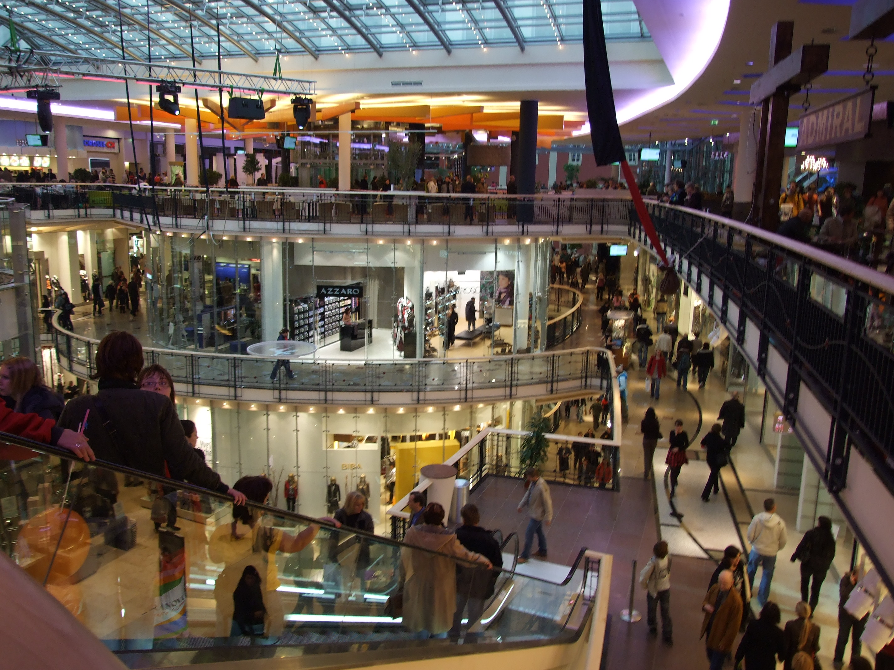 Palladium department store in Prague, opened on 25th October 2007